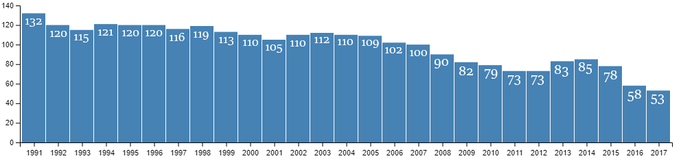 Population of Greenlandic settlement Kitsissuarsuit in 1991-2017